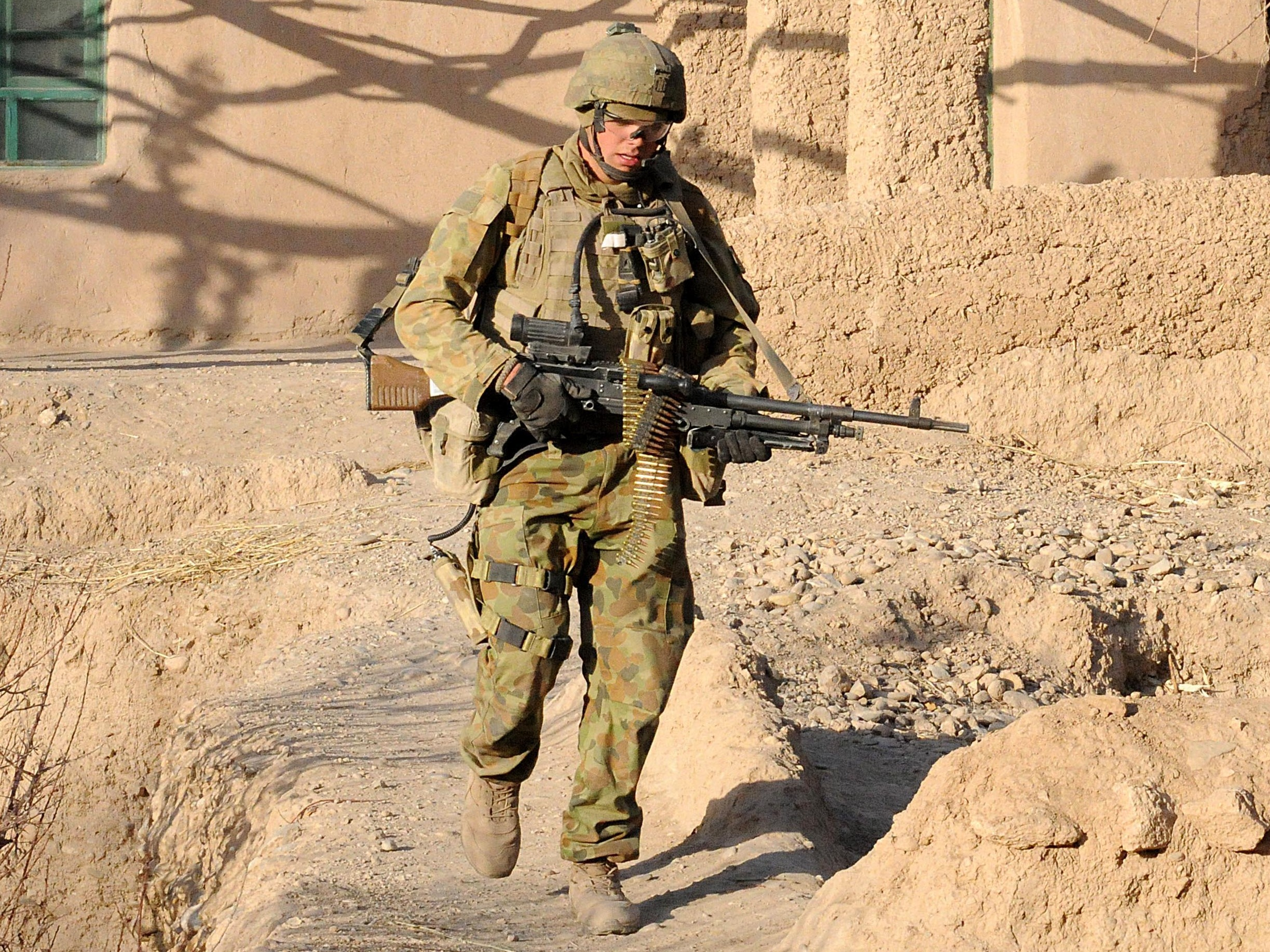 TANGI VALLEY, Afghanistan – Australian Pvt. Dillon Gluck rushes to cover as he passes through an open and unprotected area. Afghan National Army soldiers and Australian soldiers maneuver their way through a village in the Tangi Valley in order to set up a foothold at the future site of a new forward operating base Dec. 28, 2010.